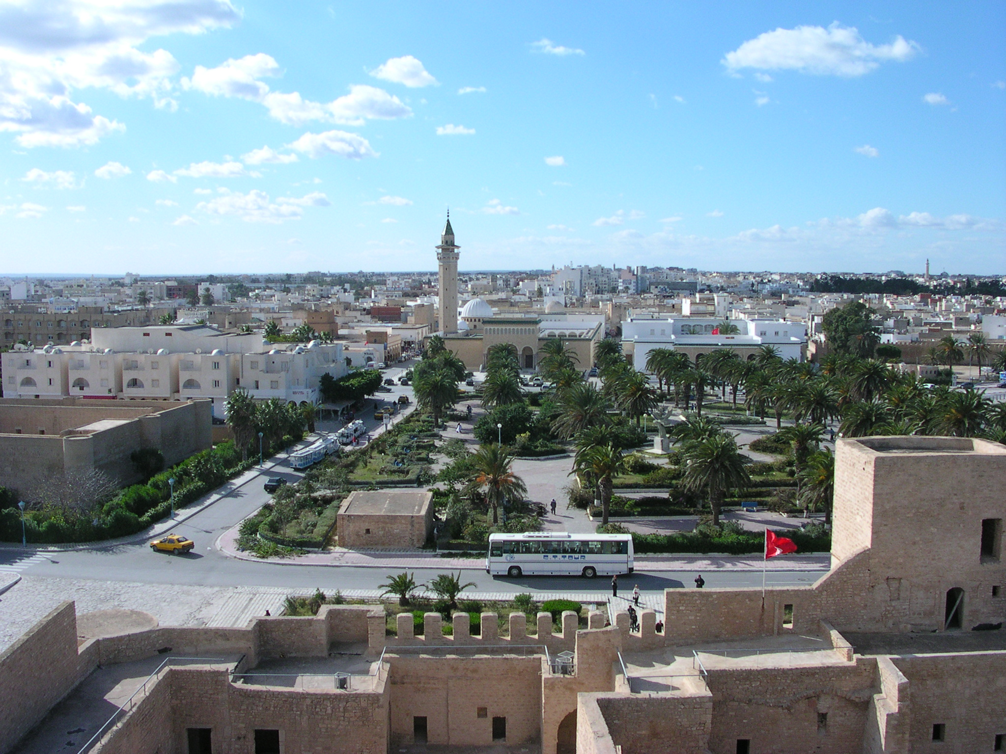 View of Monastir from the ribat towerDSCN0989.JPG